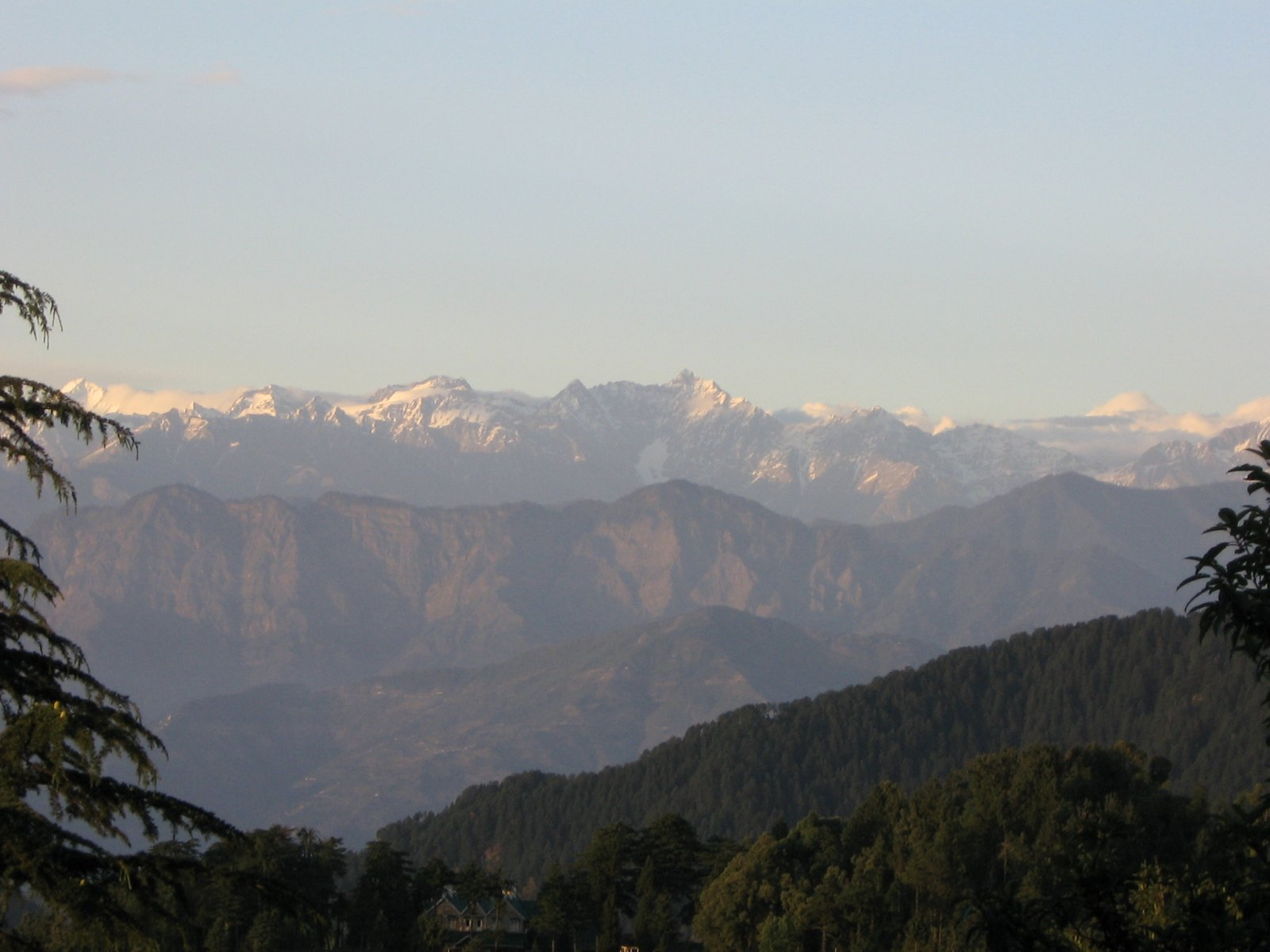 A view from Subhash Bowli in Dalhousie, Himachal Pradesh, India.